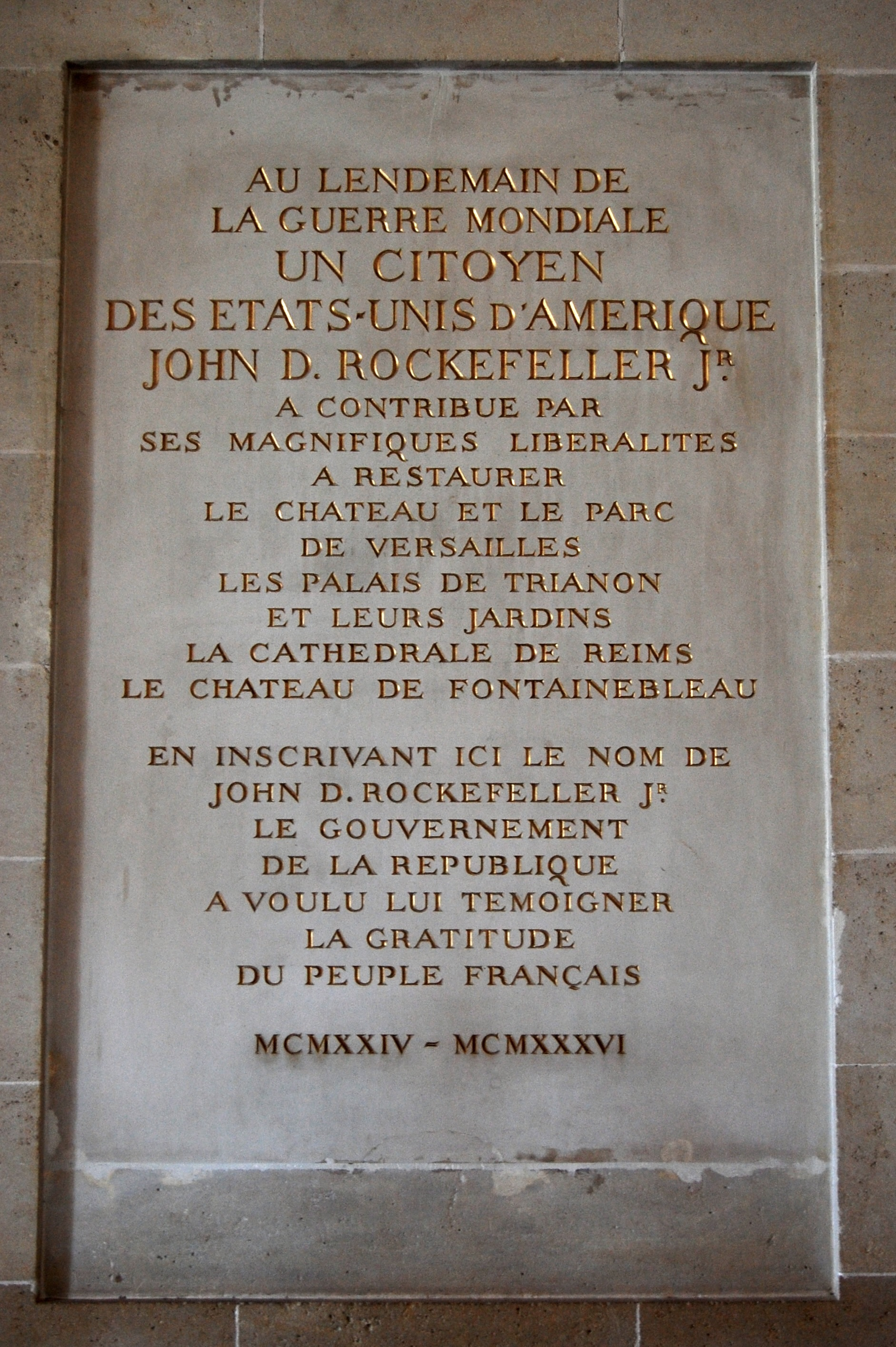 Sign about the sponsorship of John Davison Rockefeller Juniorin the château de Versailles - DSC_0898